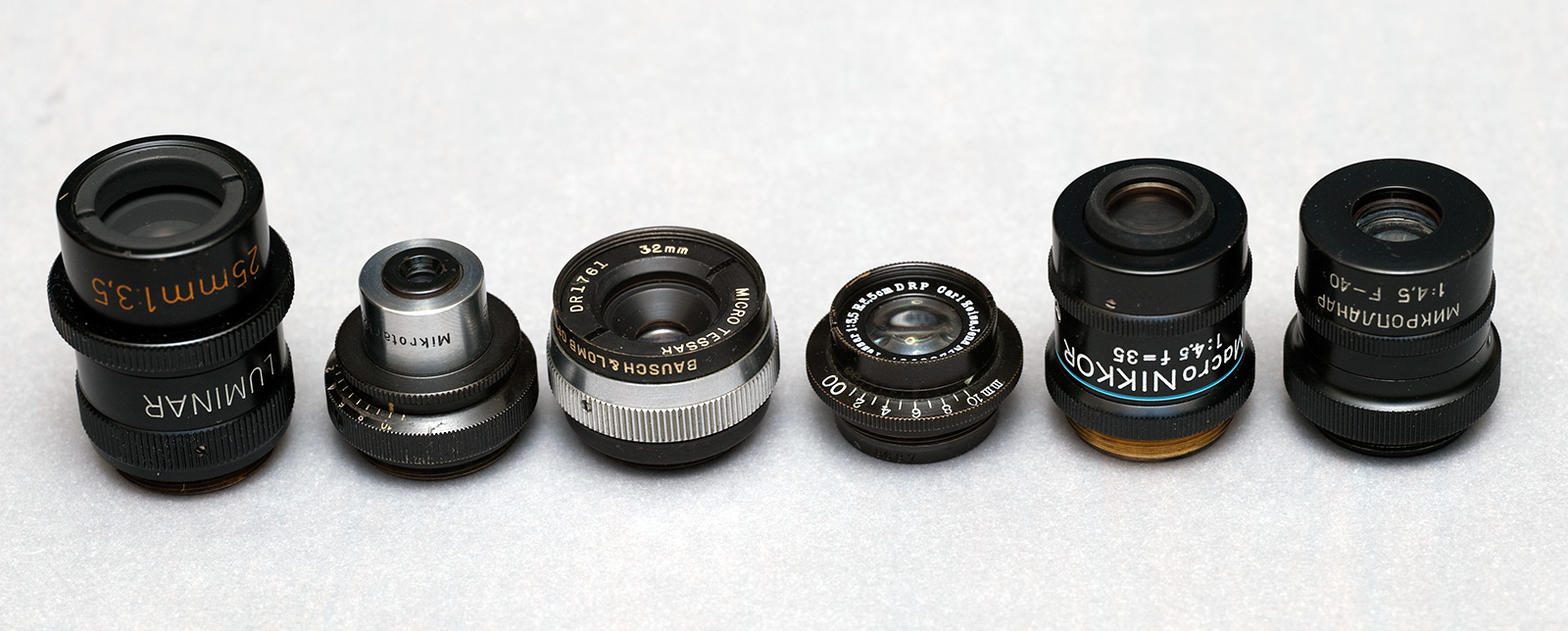 RMS Macro lenses